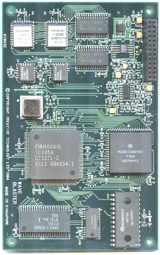 Creative labs waveblaster II